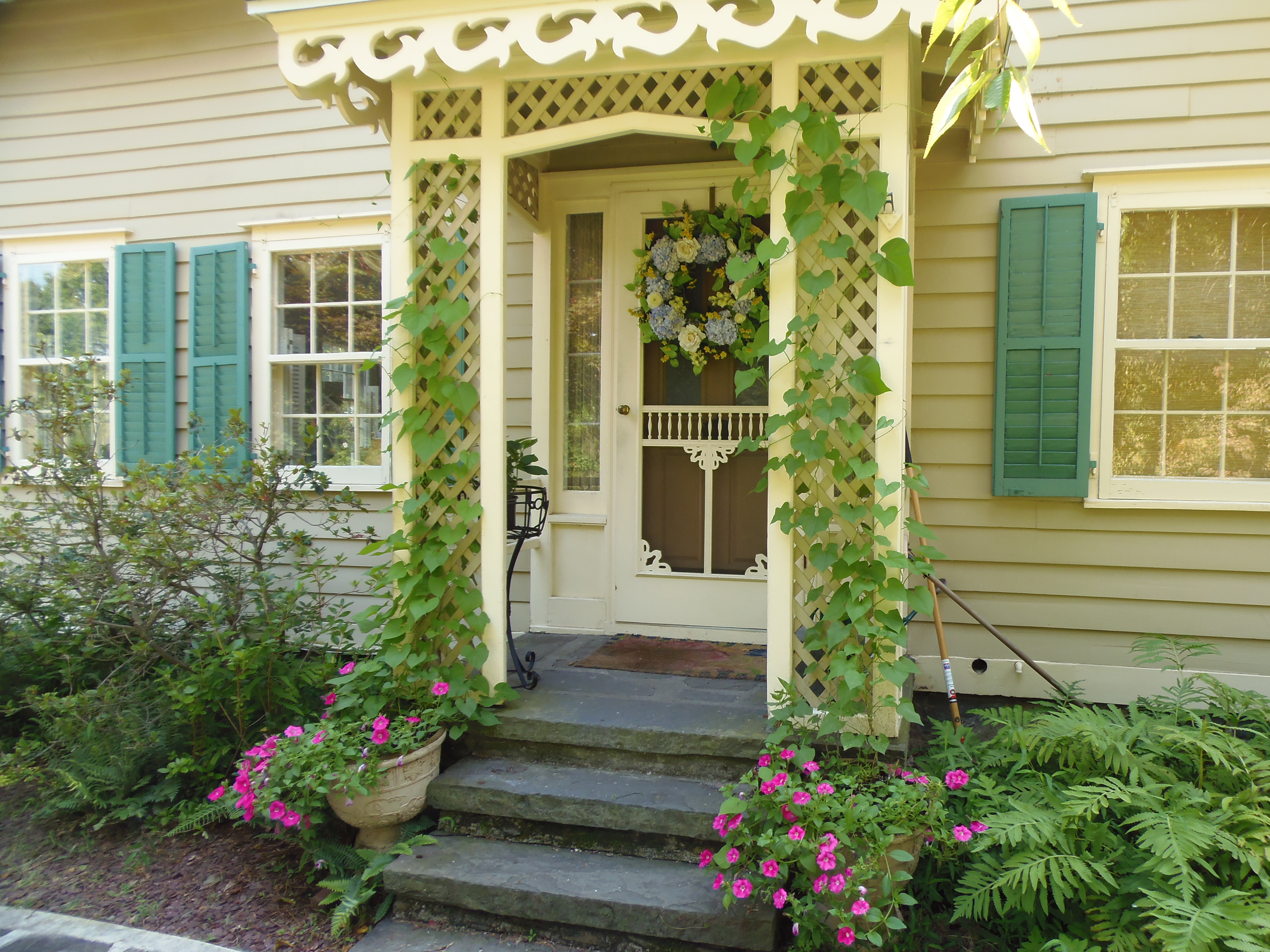 Upland Lawn Cottage